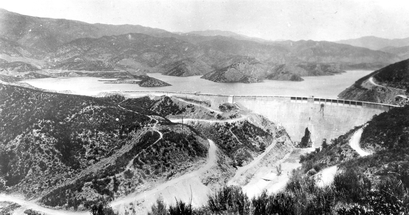 Photo of the St. Francis Dam before it was destroyed